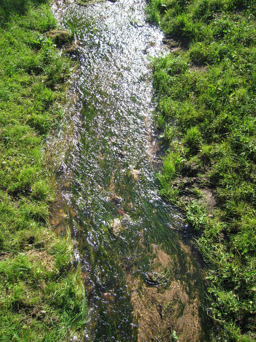 Stangė river in Merkinė